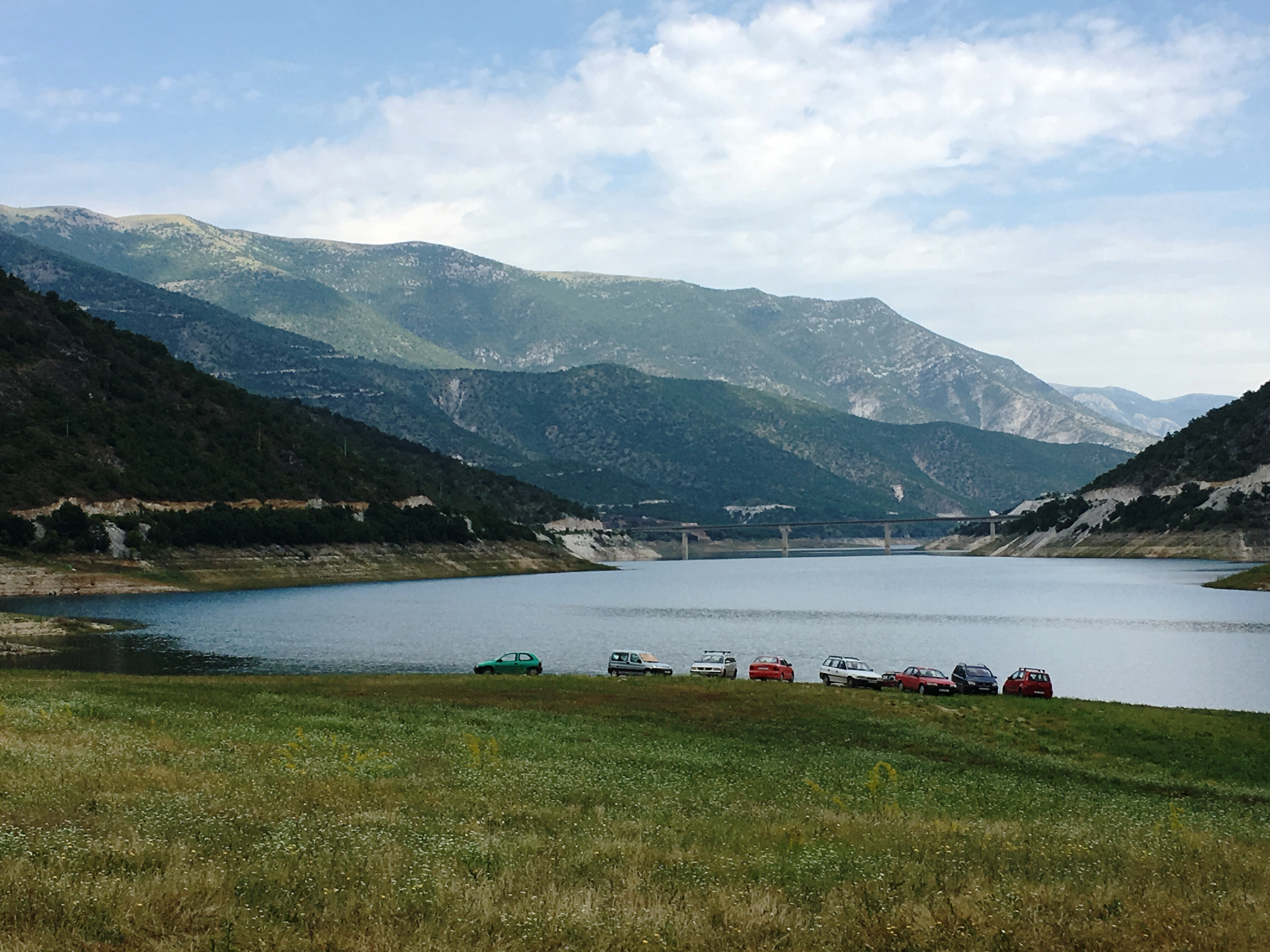 Lake Kozjan seen from the village of Blizansko